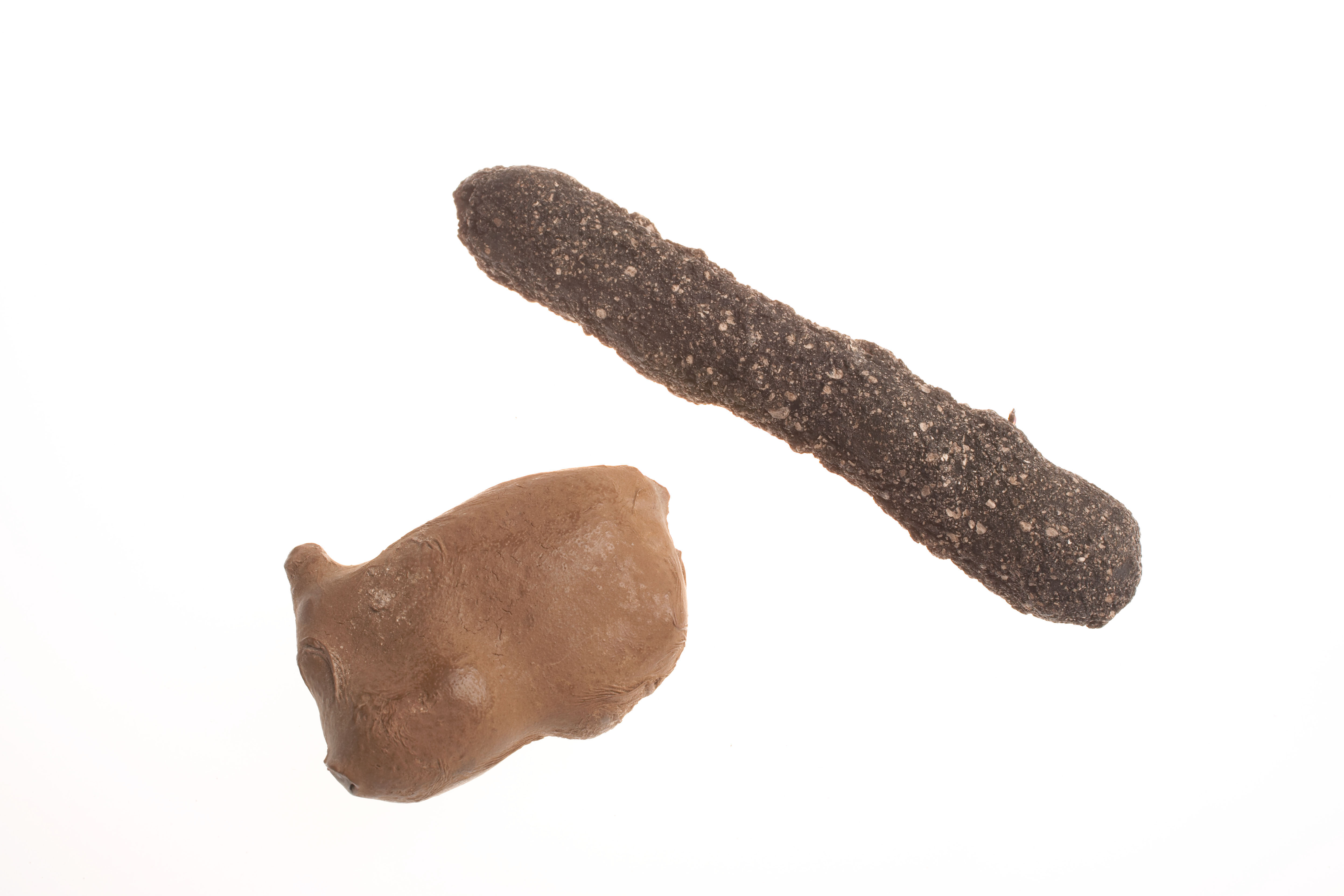 This Cold War-Era intrusion detector was designed to blend in with the terrain. It can detect movement of people, animals, or objects up to 300 meters away. The device is powered by tiny power cells and has a built-in antenna. Its transmitter relays data from the device findings via coded impulses.